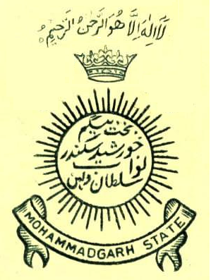 Coat of arms of Muhammadgarh State Numismatics This work is in the public domain in India because its term of copyright has expired. The Indian Copyright Act applies in India, to works first published in India. According to The Indian Copyright Act, 1957 (Chapter V Section 25), Anonymous works, photographs, cinematographic works, sound recordings, government works, and works of corporate authorship or of international organizations enter the public domain 60 years after the date on which they were first published, counted from the beginning of the following calendar year (ie. as of 2020, works published prior to 1 January 1960 are considered public domain). Posthumous works (other than those above) enter the public domain after 60 years from publication date. Any other kind of work enters the public domain 60 years after the author's death. Text of laws, judicial opinions, and other government reports are free from copyright. Photographs created before 1960 are in the public domain 50 years after creation, as per the Copyright Act 1911. This file may not be in the public domain outside India. The creator and year of publication are essential information and must be provided. See Wikipedia:Public domain and Wikipedia:Copyrights for more details. This image shows a flag, a coat of arms, a seal or some other official insignia. The use of such symbols is restricted in many countries. These restrictions are independent of the copyright status.